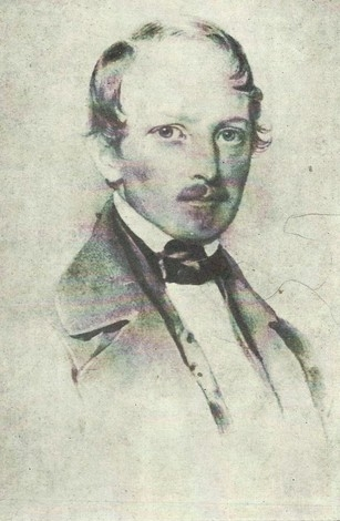 Poseł do Rady Państwa i Sejmu Galicyjskiego